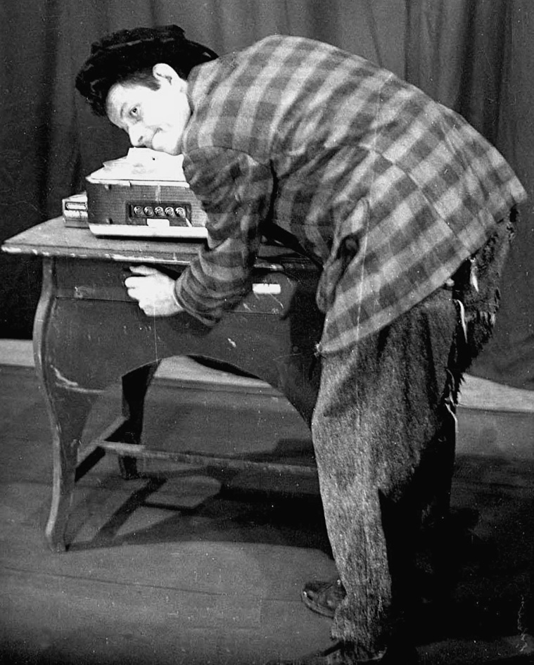 Krapp's Last Tape, directed by Macedonian theatre director Bore Angelovski